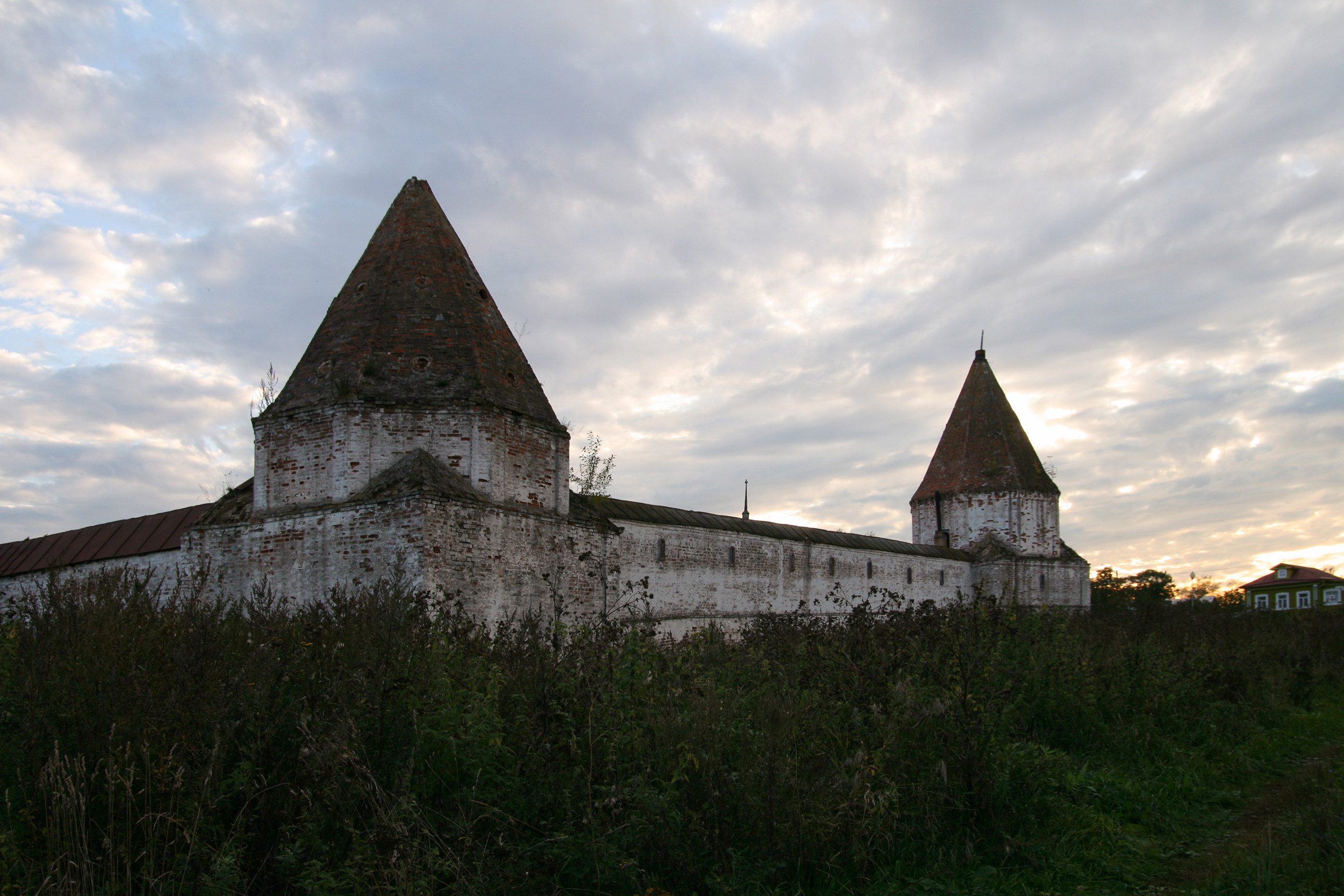 Walls of the Convent of Intercession, XVII c, Suzdal